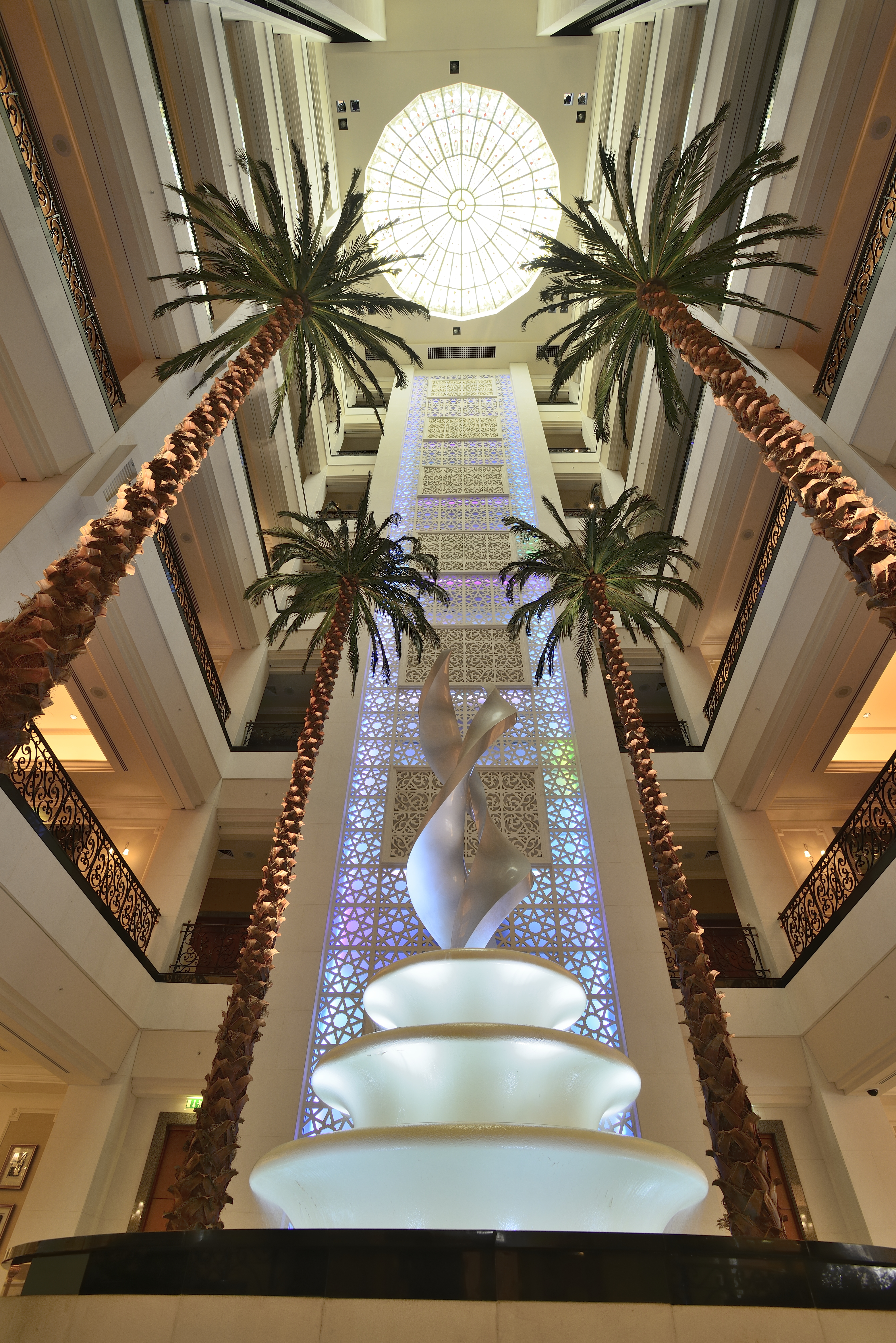 Interior_of_building_Heydar_Aliyev_Foundation